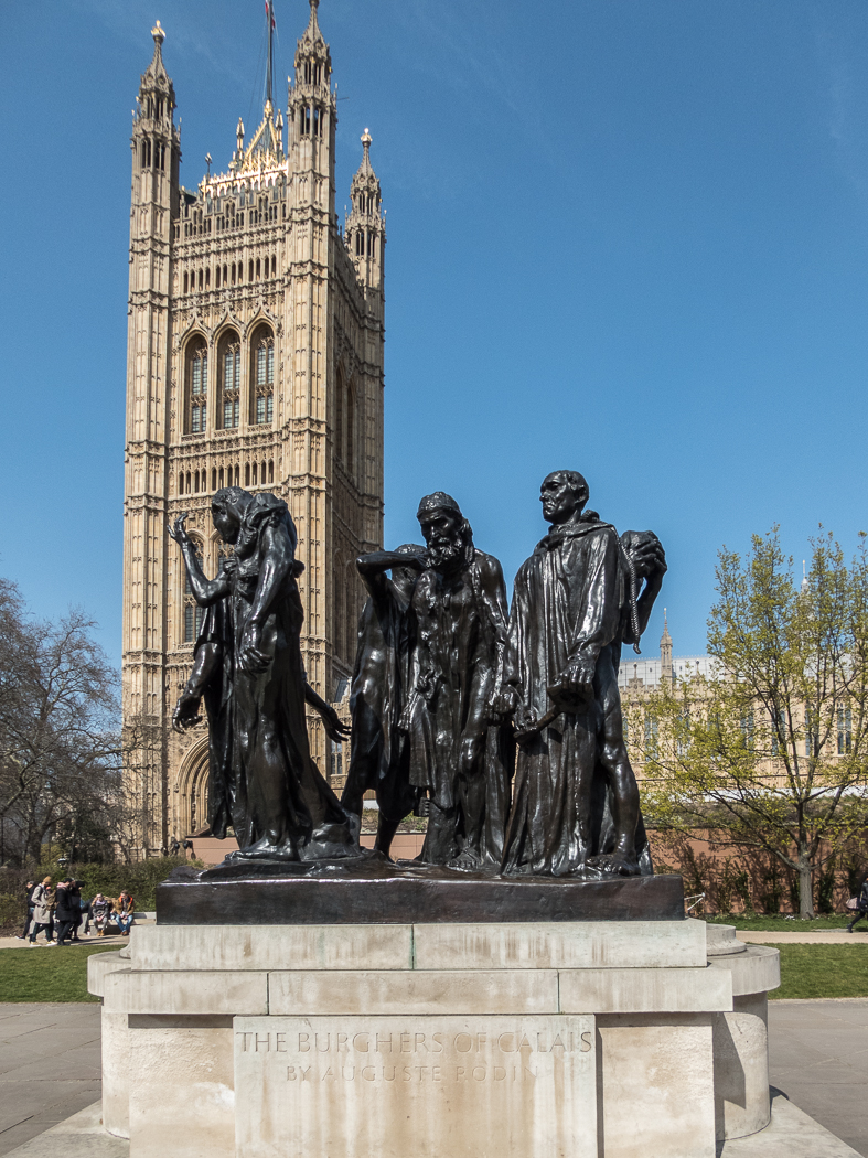 The Burghers of Calais Statue and Victoria Tower, Houses of Parliament, London SW1